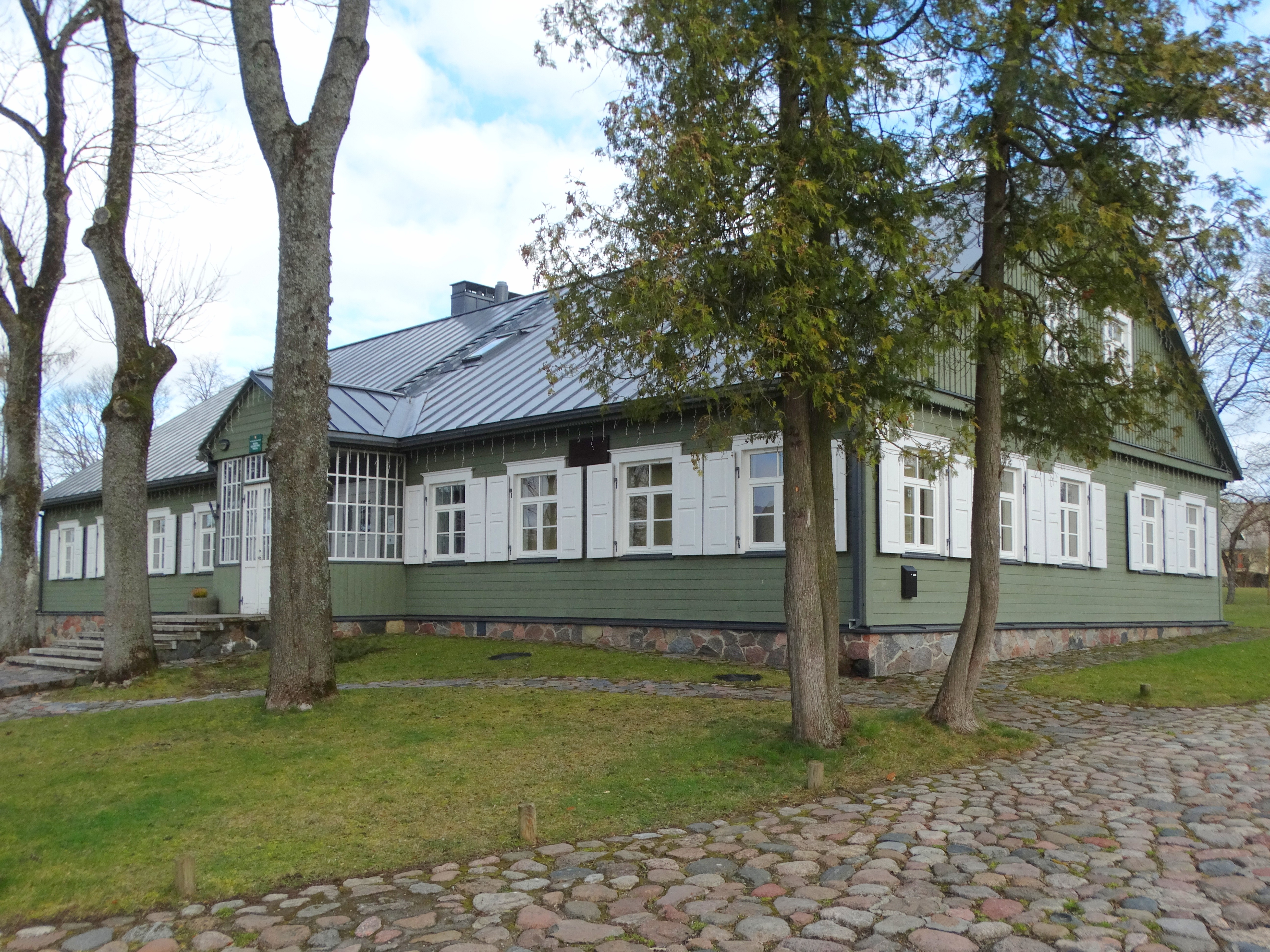 Regional Park, Anykščiai, Lithuania